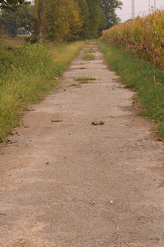 Old "Via Castelleonese" in Italy